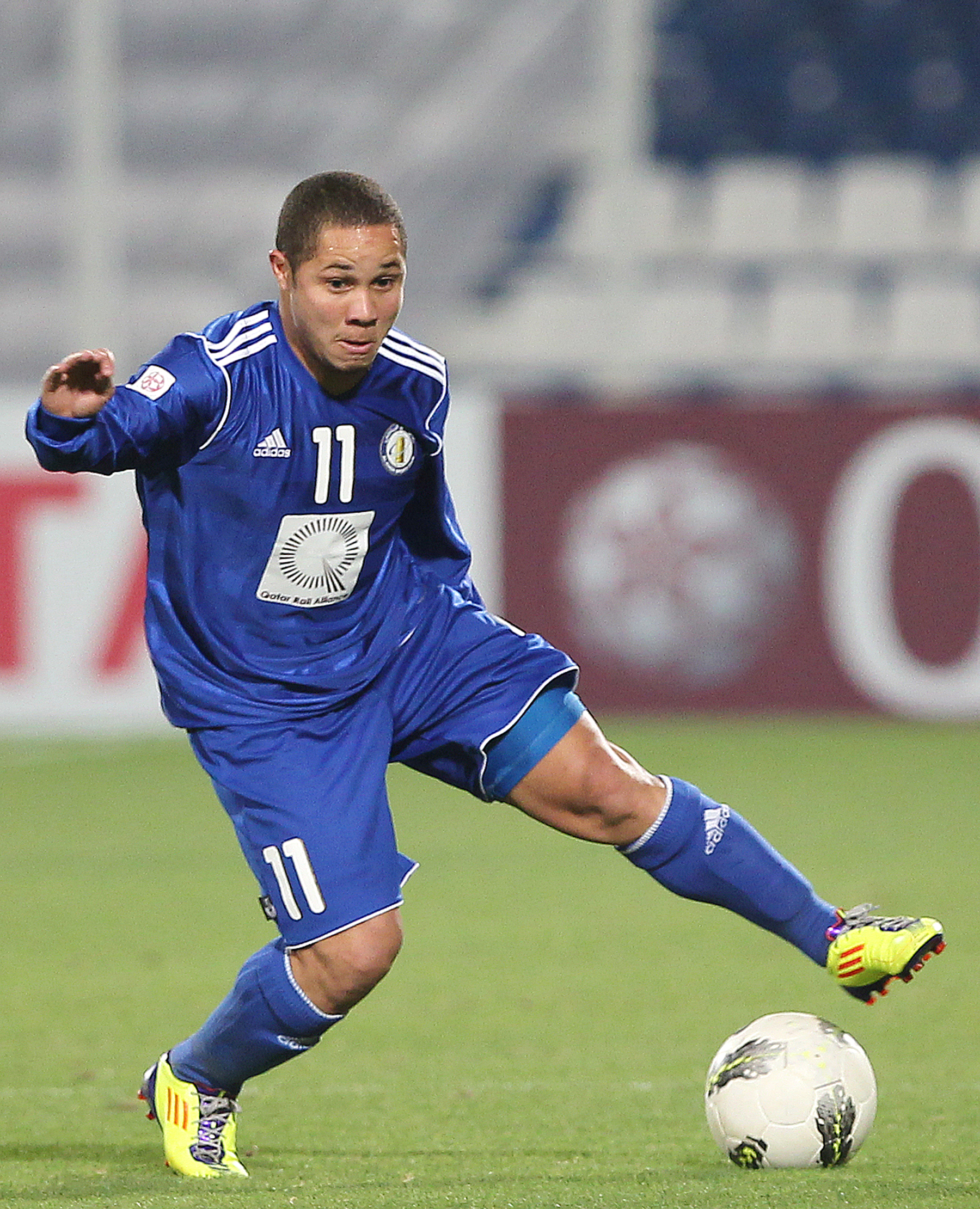 Al Khor's Brazilian professional Madson during a Qatar Stars League match. Picture by AK Bijuraj